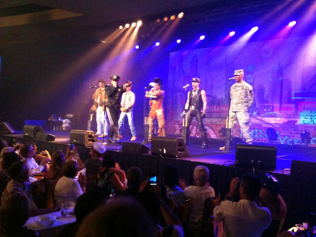 Village People at Sheraton Waikiki